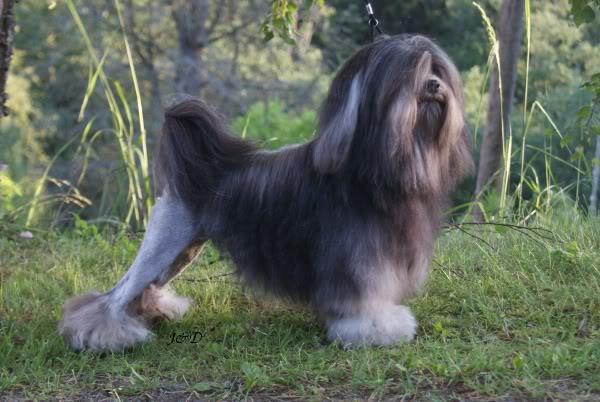 Lowchen